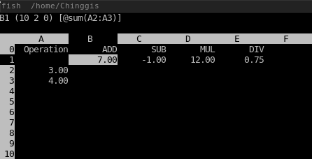 Running sc spreadsheet calculator on urxvt inside fish shell.